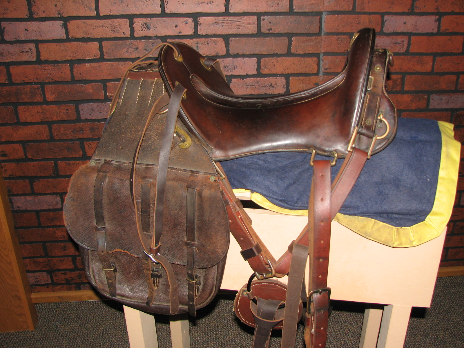 The McCellan Saddle was a riding saddle designed by George B. McClellan, a career Army officer in the U.S. Army, and adopted by the Army in 1859. The saddle continued in continuous use from the period of adoption until the U.S. Army's last horse cavalry and horse artillery was dismounted in World War Two. Even at that, the saddle has continued on in use with ceremonial units in the U.S. Army which continue to use horses. Side close up Photo taken at Ft Kearny Nebraska State Park